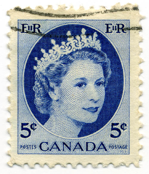 Canada 5c stamp of 1954